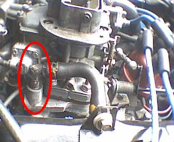 Positive Crankcase Ventilation valve + modified connection to valve cover on 1977 Ford Taunus V4 engine in a Saab 96. Solex 32TDID carburetor replaced with Weber 32/36 DGAV.